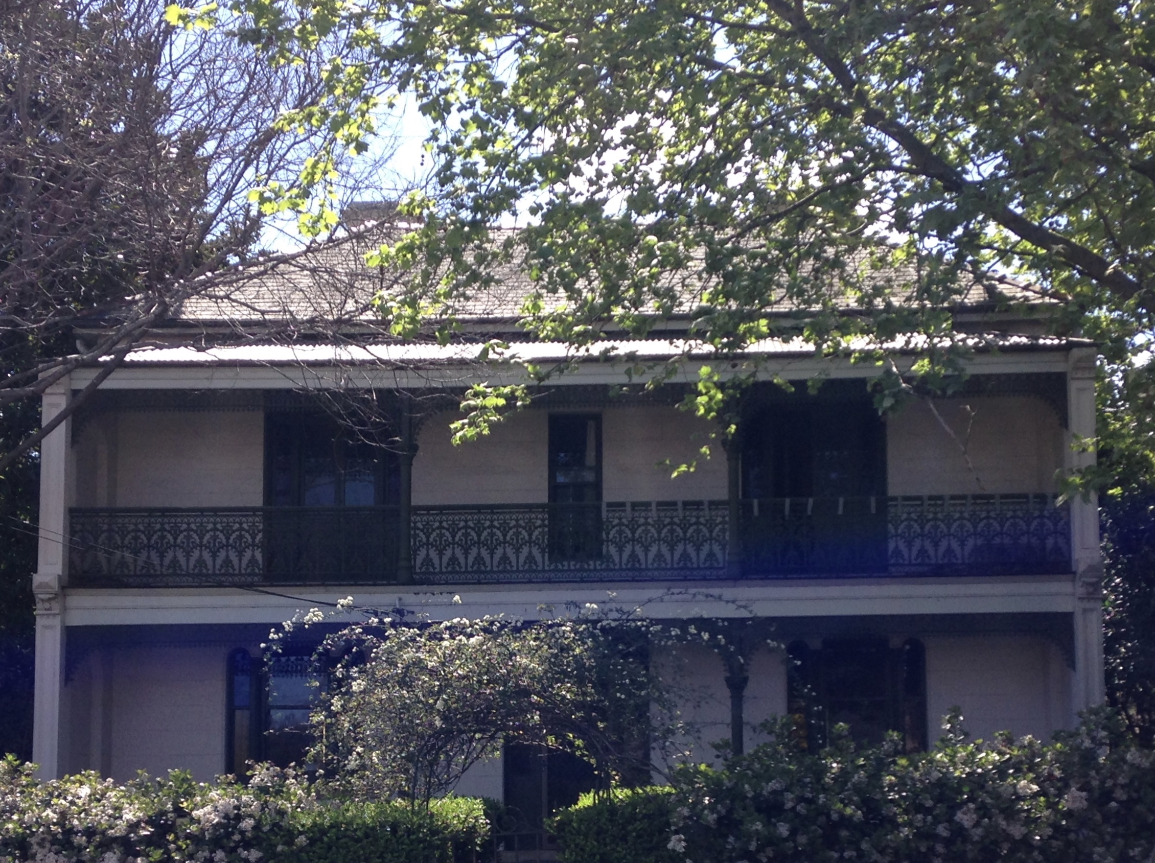 Hereford House, Hereford Street, Glebe, NSW, was built 1870-79 for William Bull.